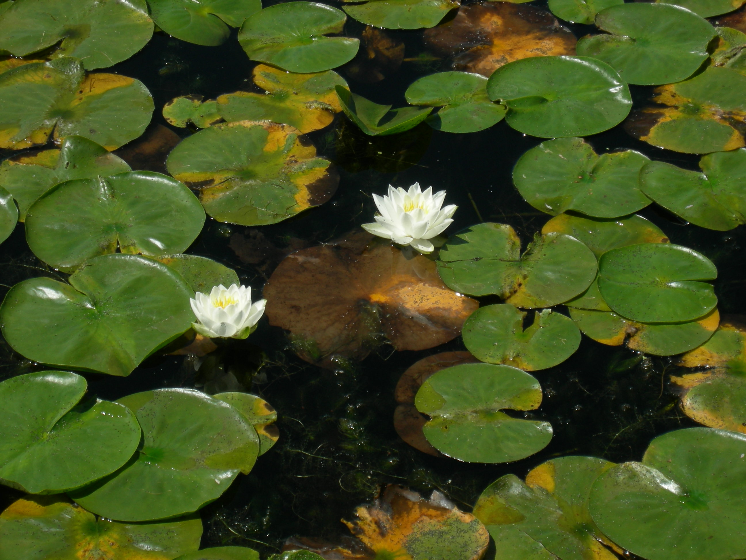 Water lilies (Nymphaea sp.), Juanita Bay, Kirkland, Washington.